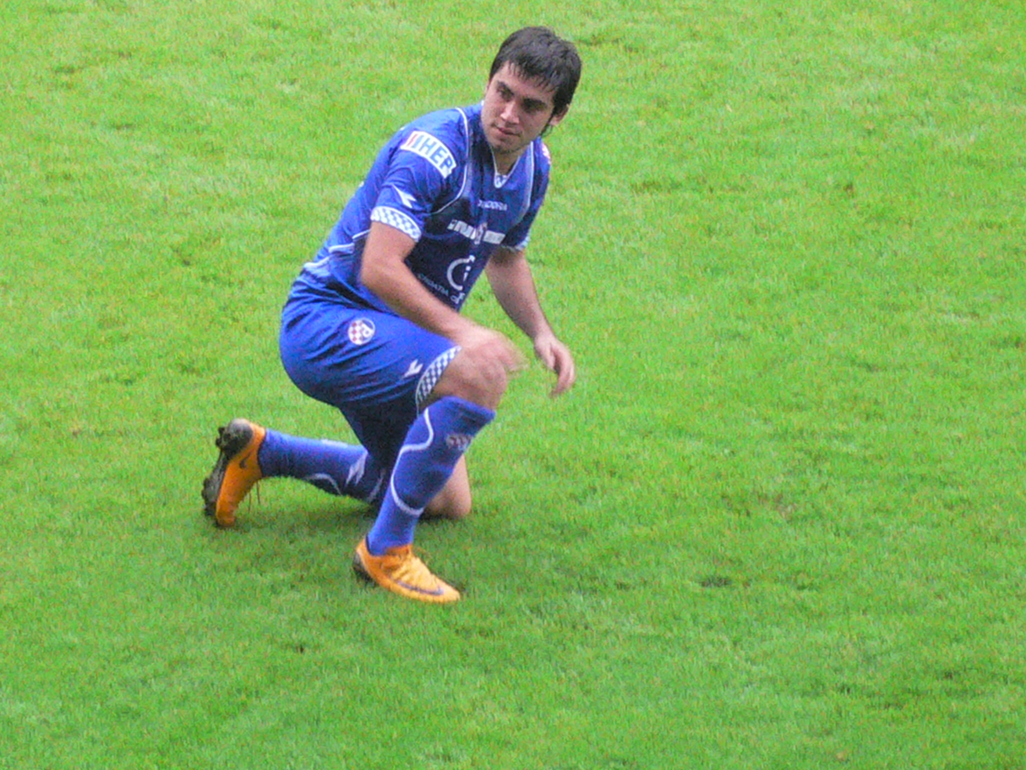 Pedro Morales wearing Dinamo Zagreb's colors